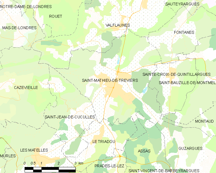 Map commune FR insee code 34276.png - Saint-Mathieu-de-Tréviers